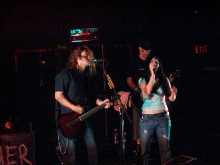 Amy Lee performing with Seether